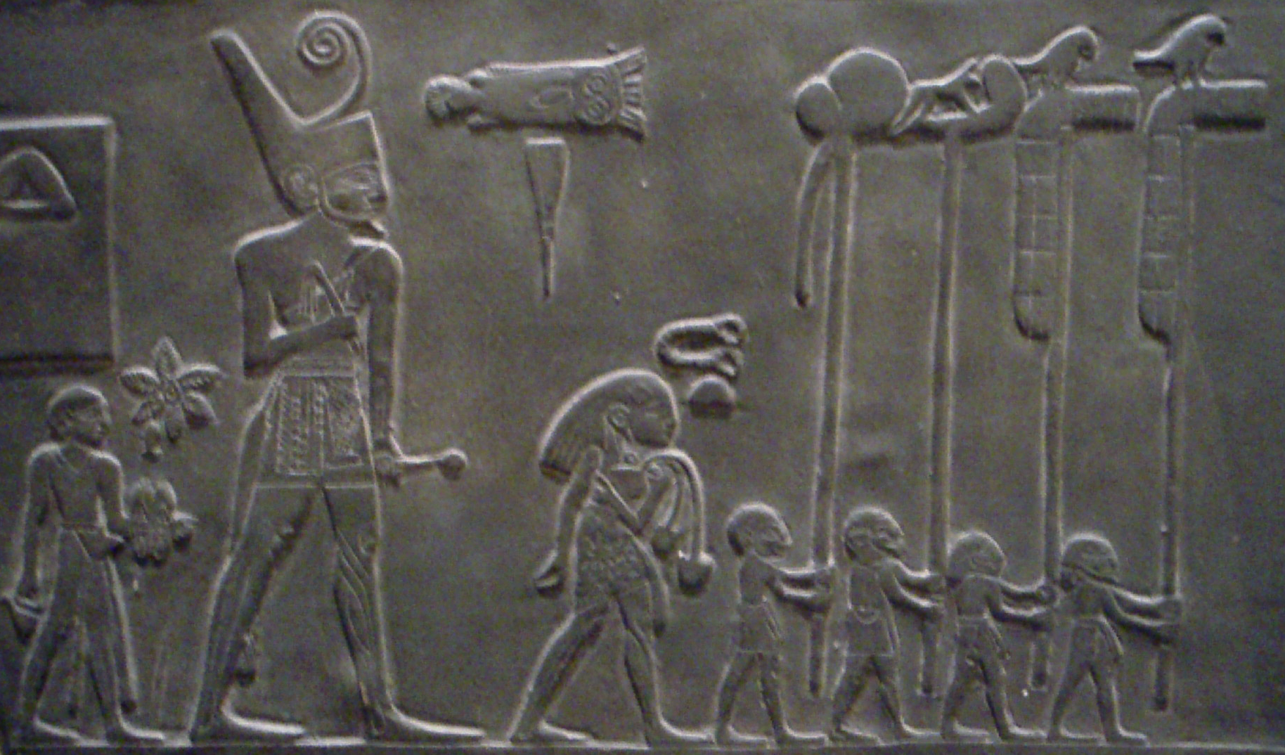 Close-up of a procession featuring Pharaoh Narmer, a Sandal-bearer, and an attendent in front of him, and 4 Standard Bearers, from a full-sized facsimile of the original Narmer Palette in Cairo-(Egyptian Museum); this facsimile-version resides in the Ancient Egyptian wing of the Royal Ontario Museum.